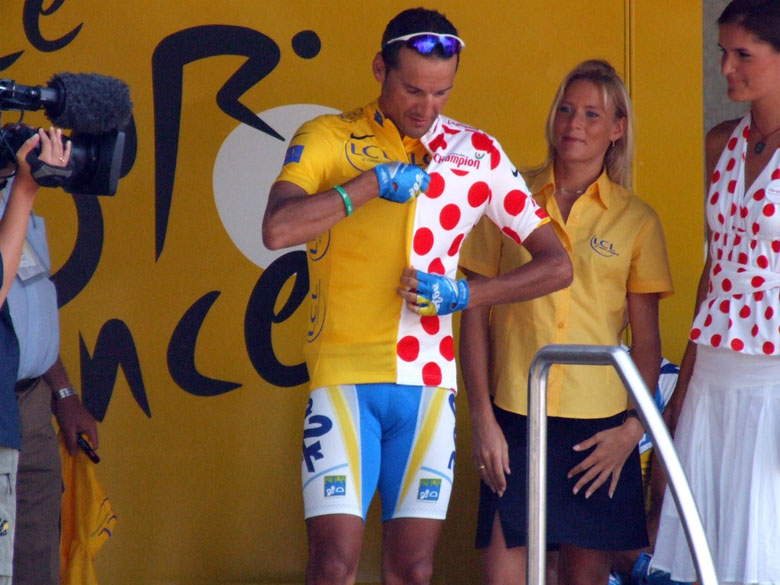 Dessel celebrates. Taken by Stitchface in Tarbes.